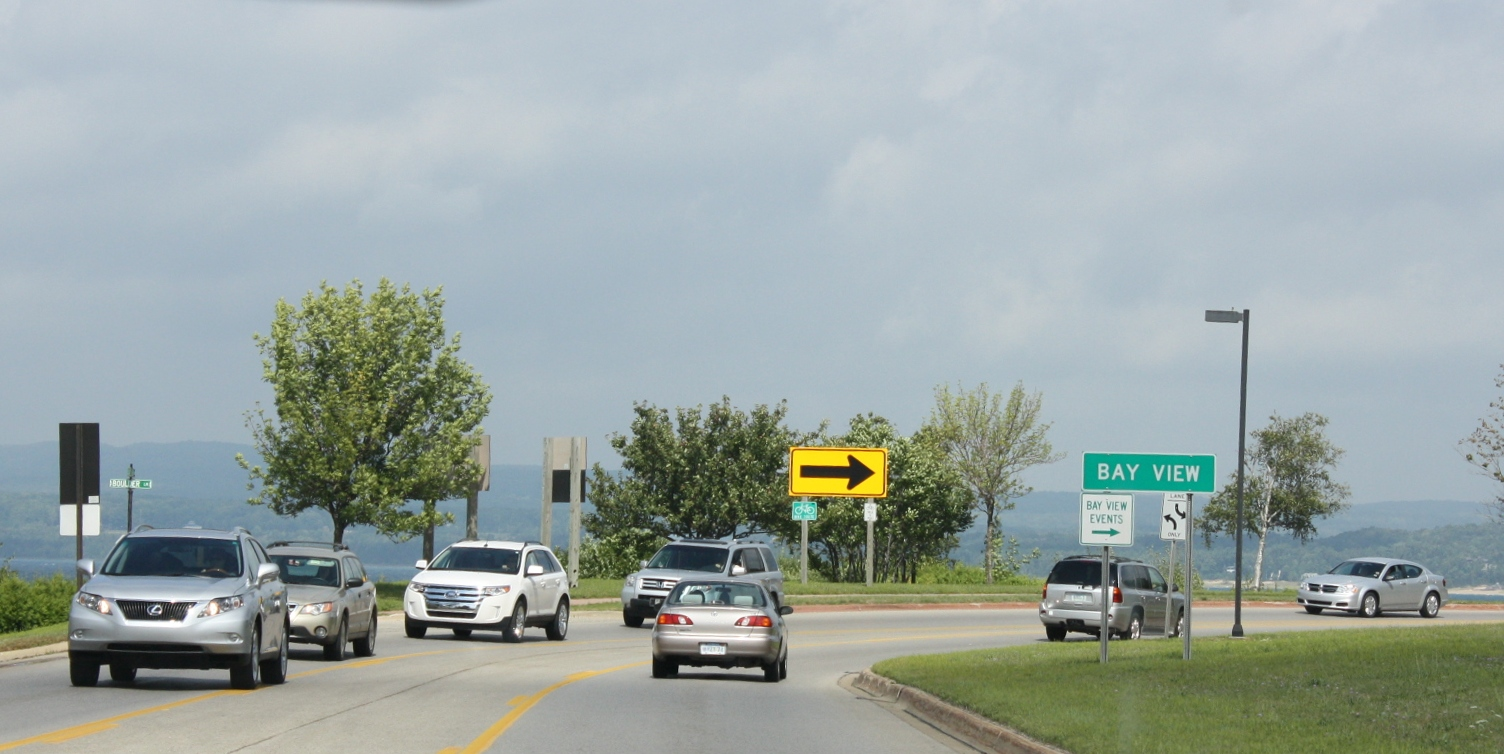 The sign for Bay View, MIchigan along U.S. Route 31.